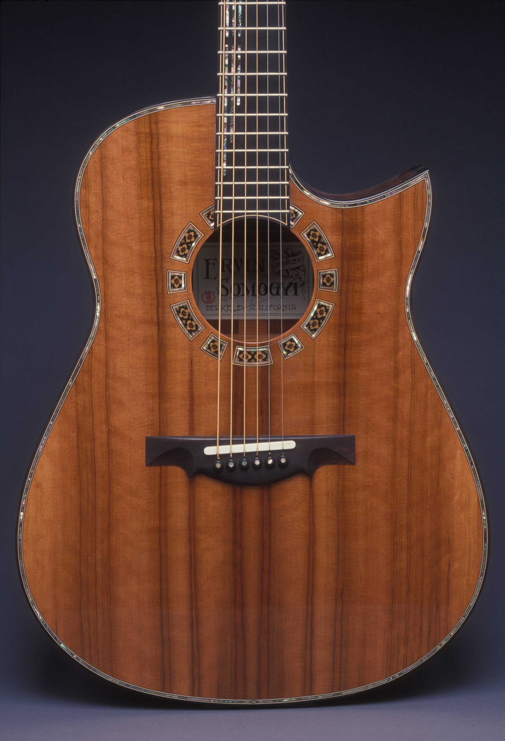 Modified Dreadnought Guitar, "Mod-D", by Luthier Ervin V. Somogyi